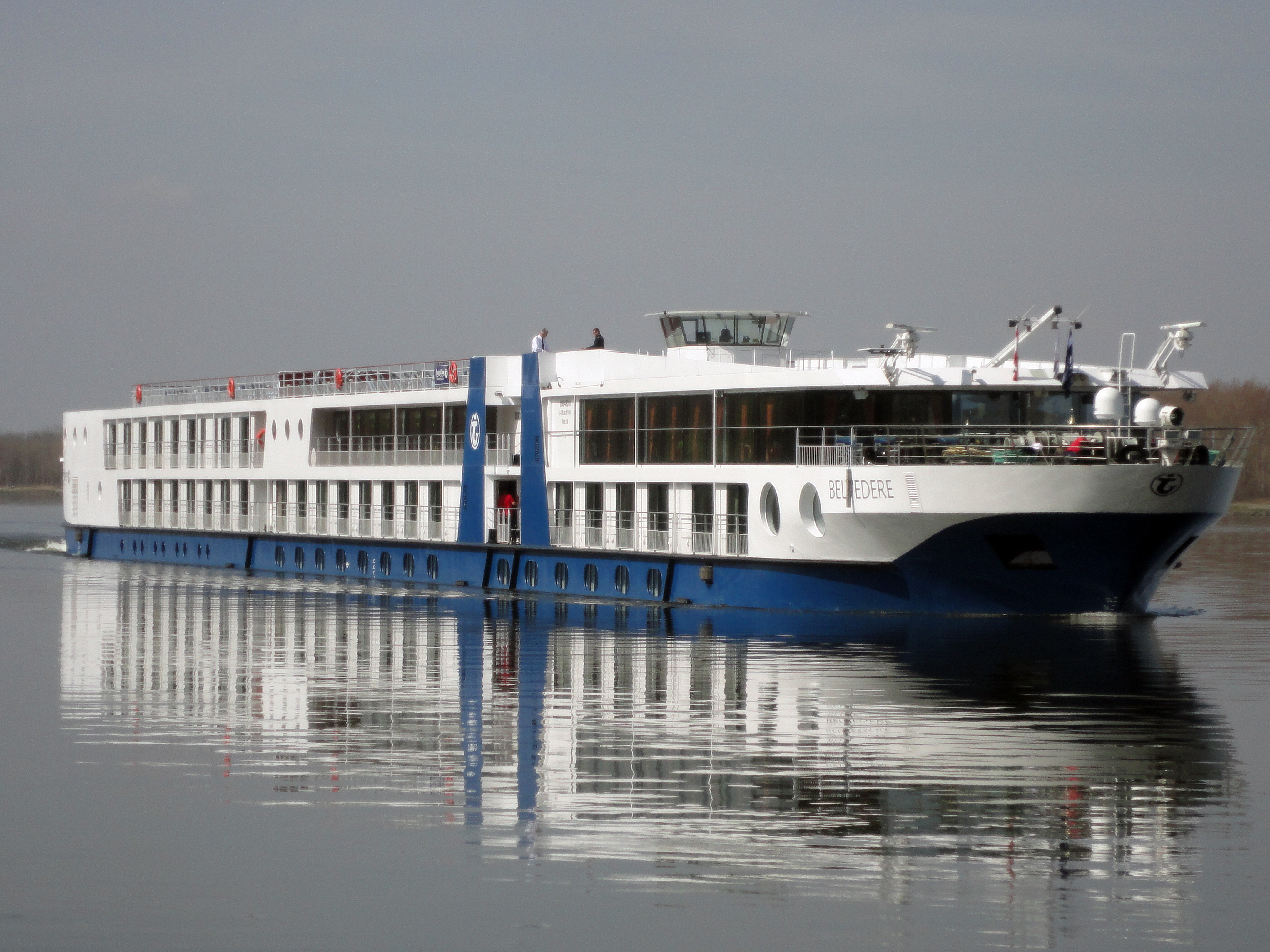 River cruise ship Belvedere in Greifenstein, Danube.